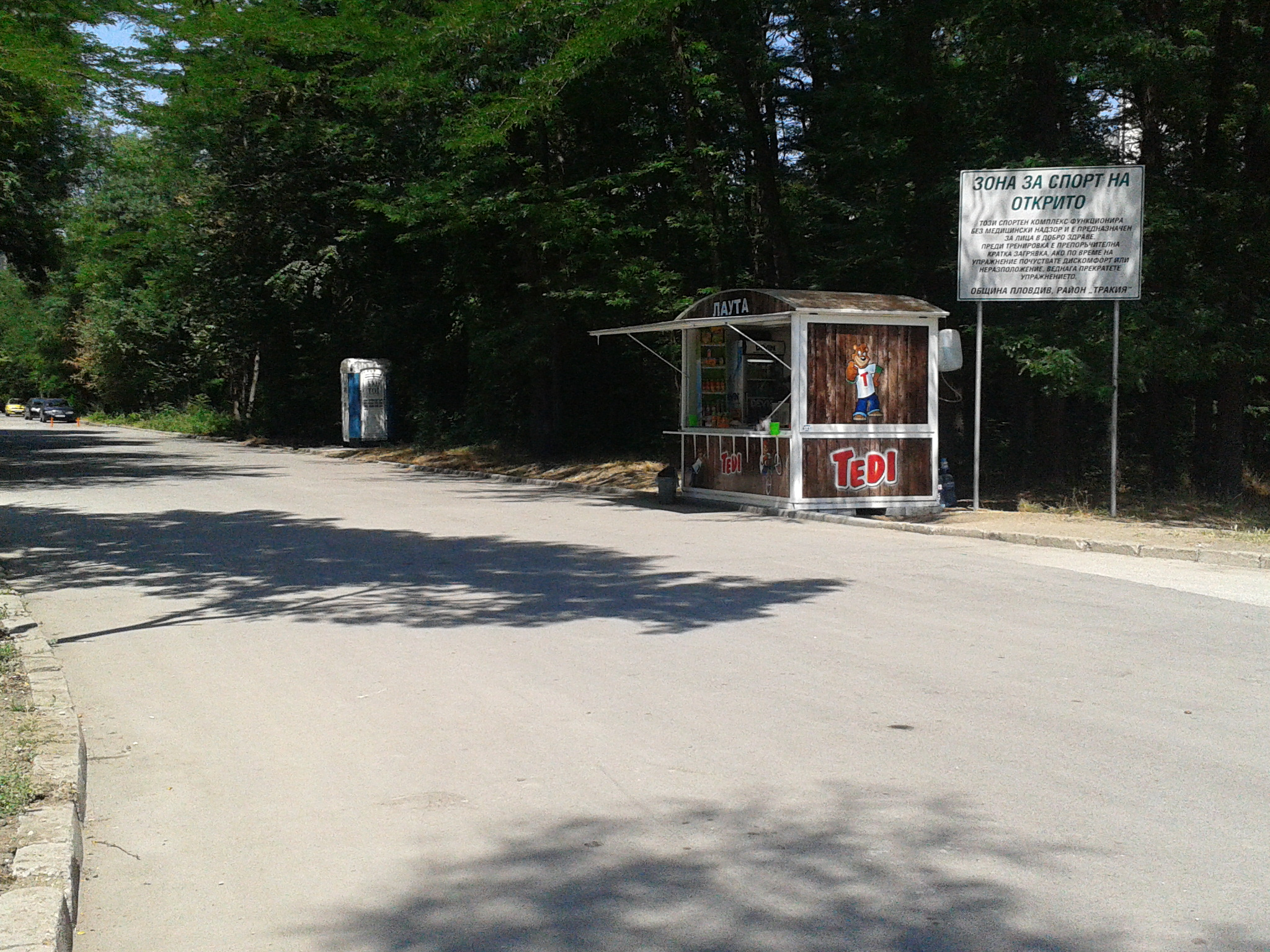 Lauta Park - Plovdiv